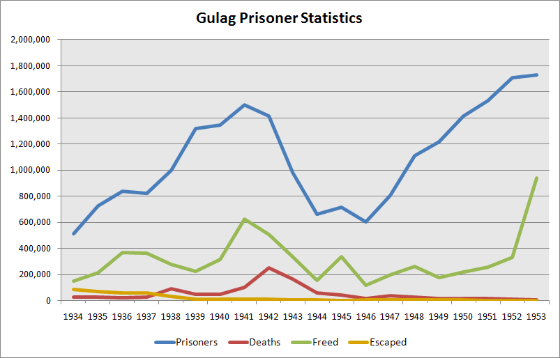 Gulag prisoner statistics from 1934-1954. Sources: [1][2]